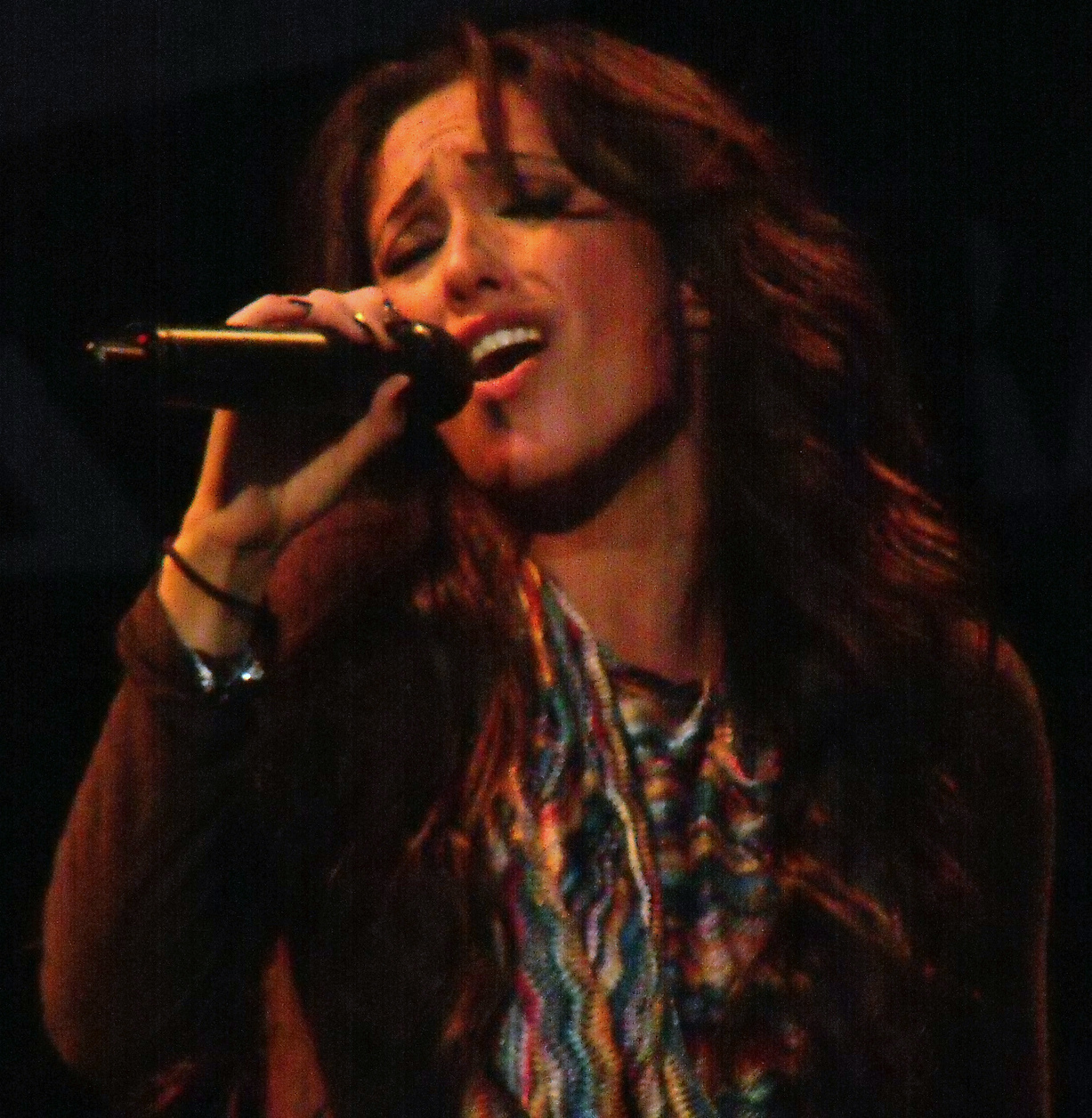 Anahí Puente performing Mi Delirio World Tour Reloaded in Brazil, 2010.